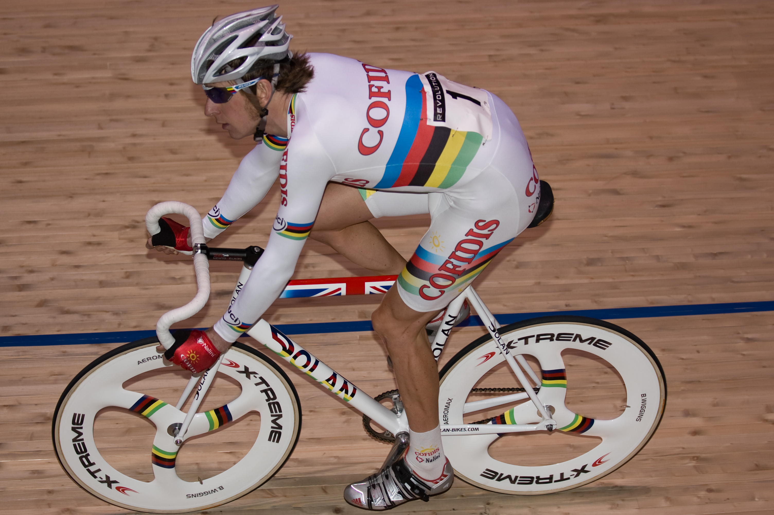 5km Elite Motor Paced Scratch Race